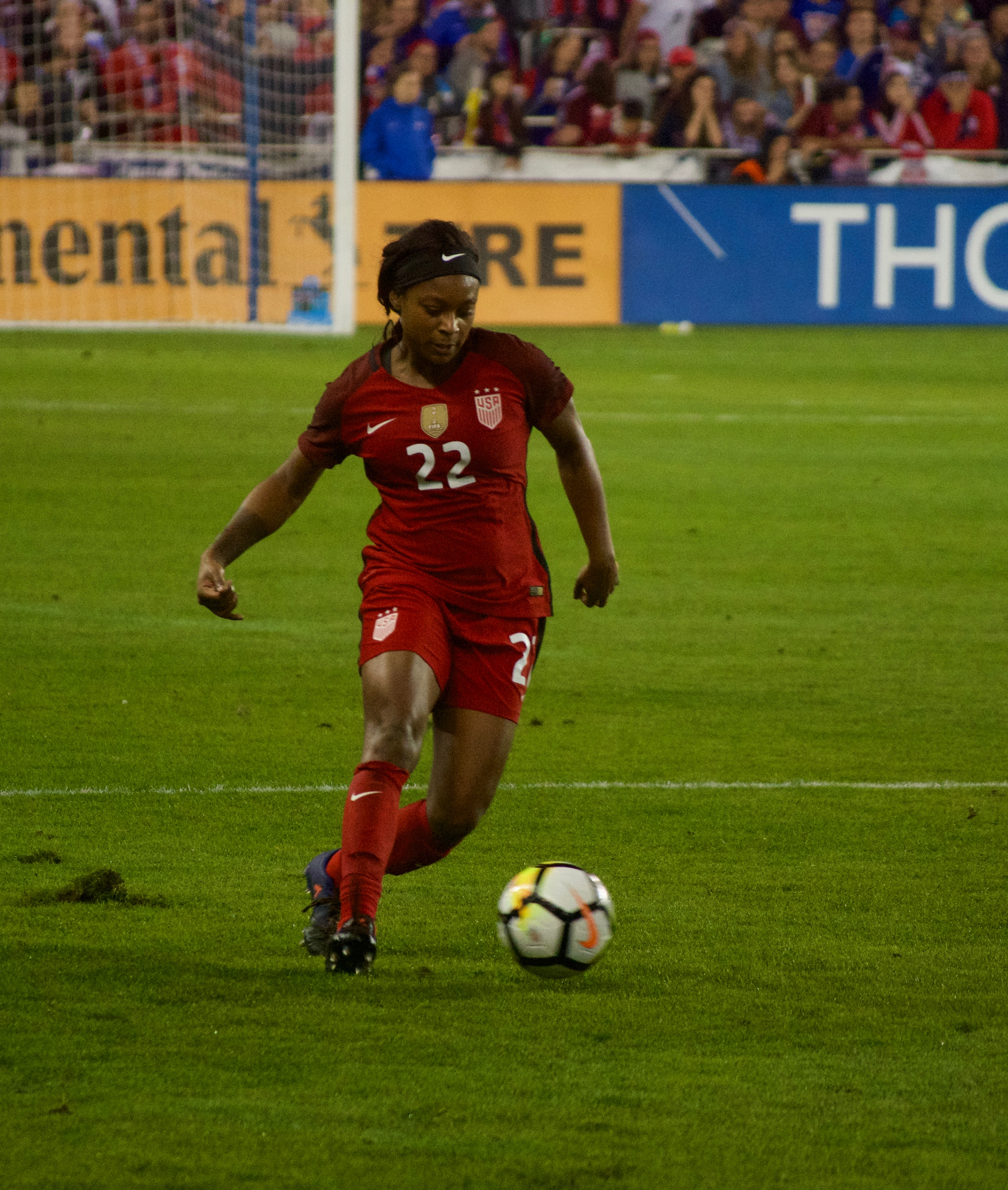 Taylor Smith playing in a friendly at Avaya Stadium, San Jose, California, 12 Nov 2017.